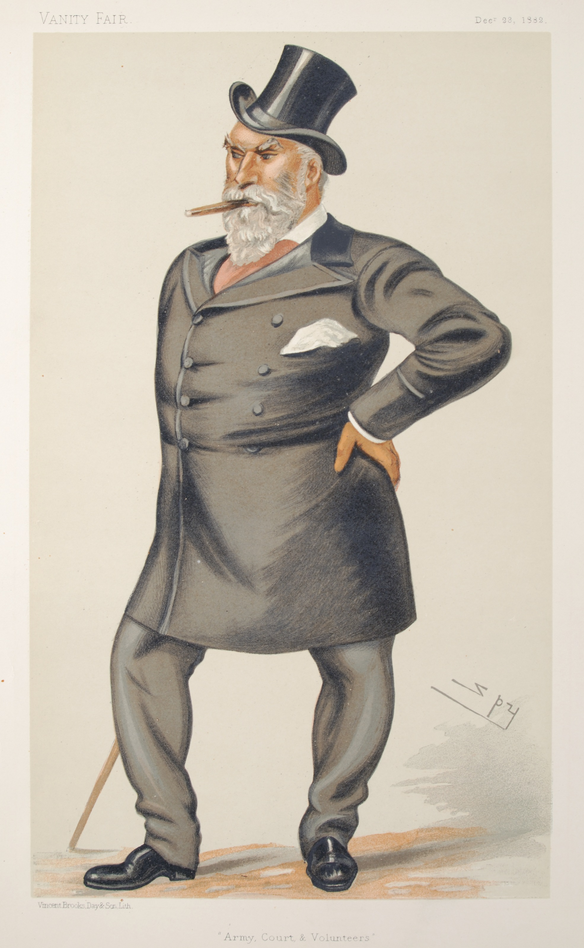 Men of the Day No.269: Caricature of Col The Hon Charles Hugh Lindsay MP. Caption reads: "Army, Court and Volunteers"